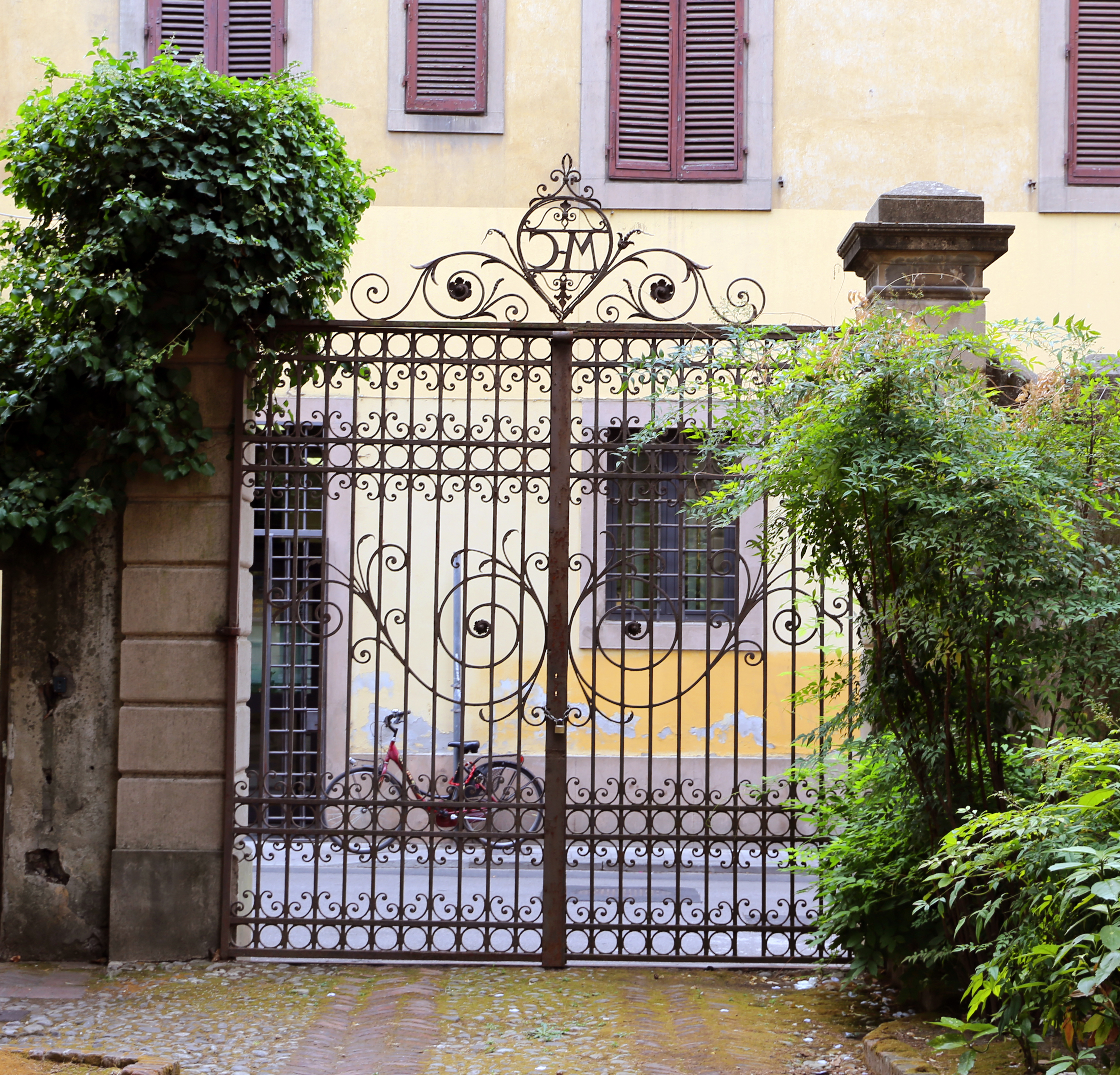 Buildings in Pontedera